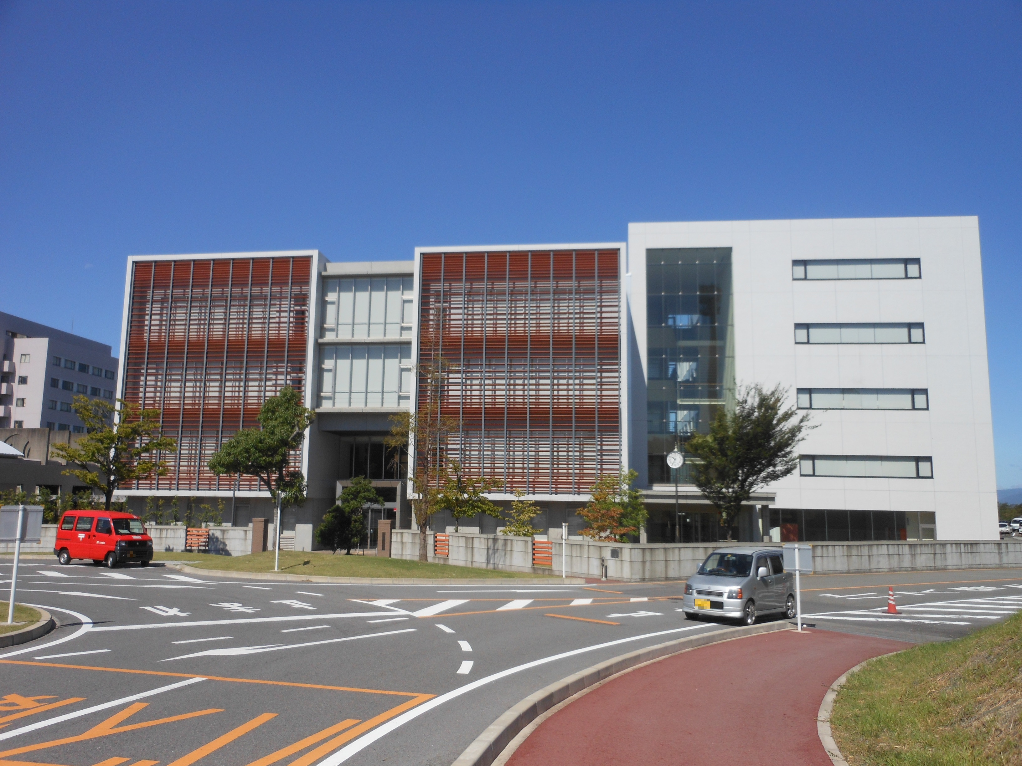 This is a university building for Yokkaichi Nursing and Medical Care University in Yokkaichi, Mie, Japan.